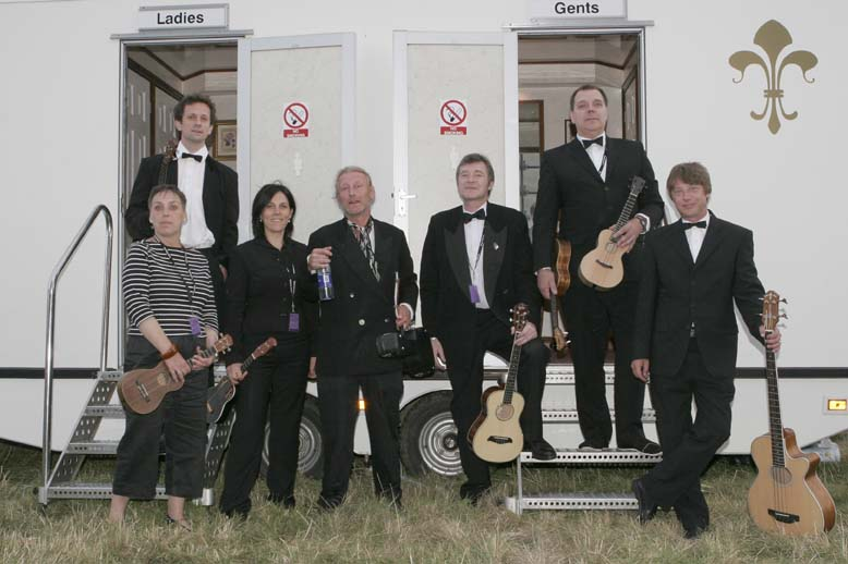 The Ukulele Orchestra of Great Britain at Fairport's Cropredy Convention, 2005. L to R: Kitty Lux, Will Grove-White, Hester Goodman, Dave Suich, Richie Williams, George Hinchcliffe, Jonty Bankes.